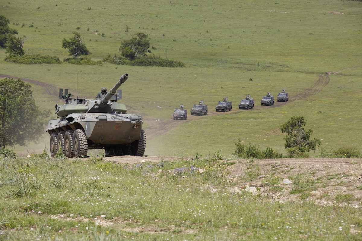 Italian Army Cavalry Regiment "Lancieri di Montebello" (8°) on exercise, May 2019